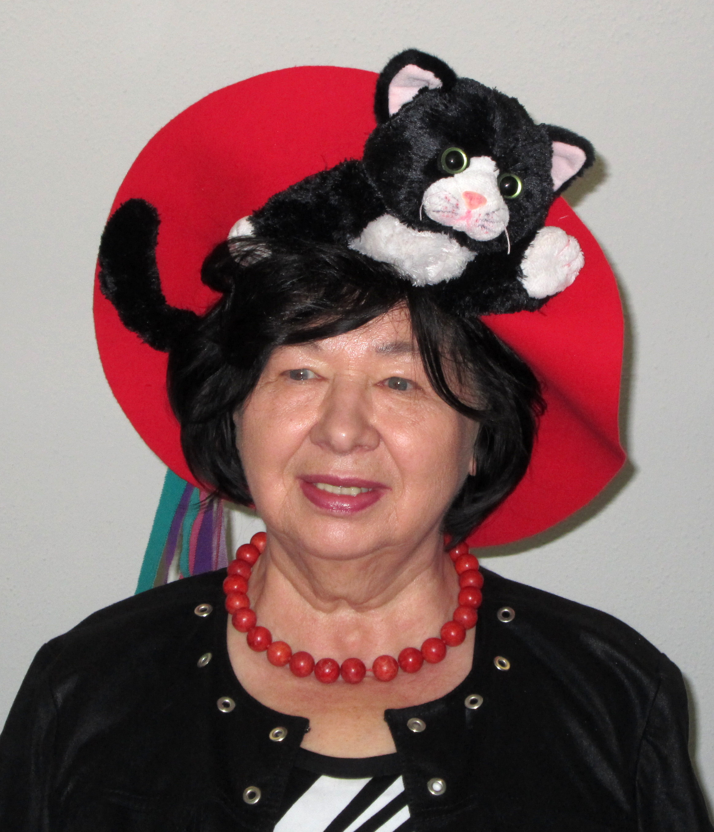 Maria Kloss, German artist